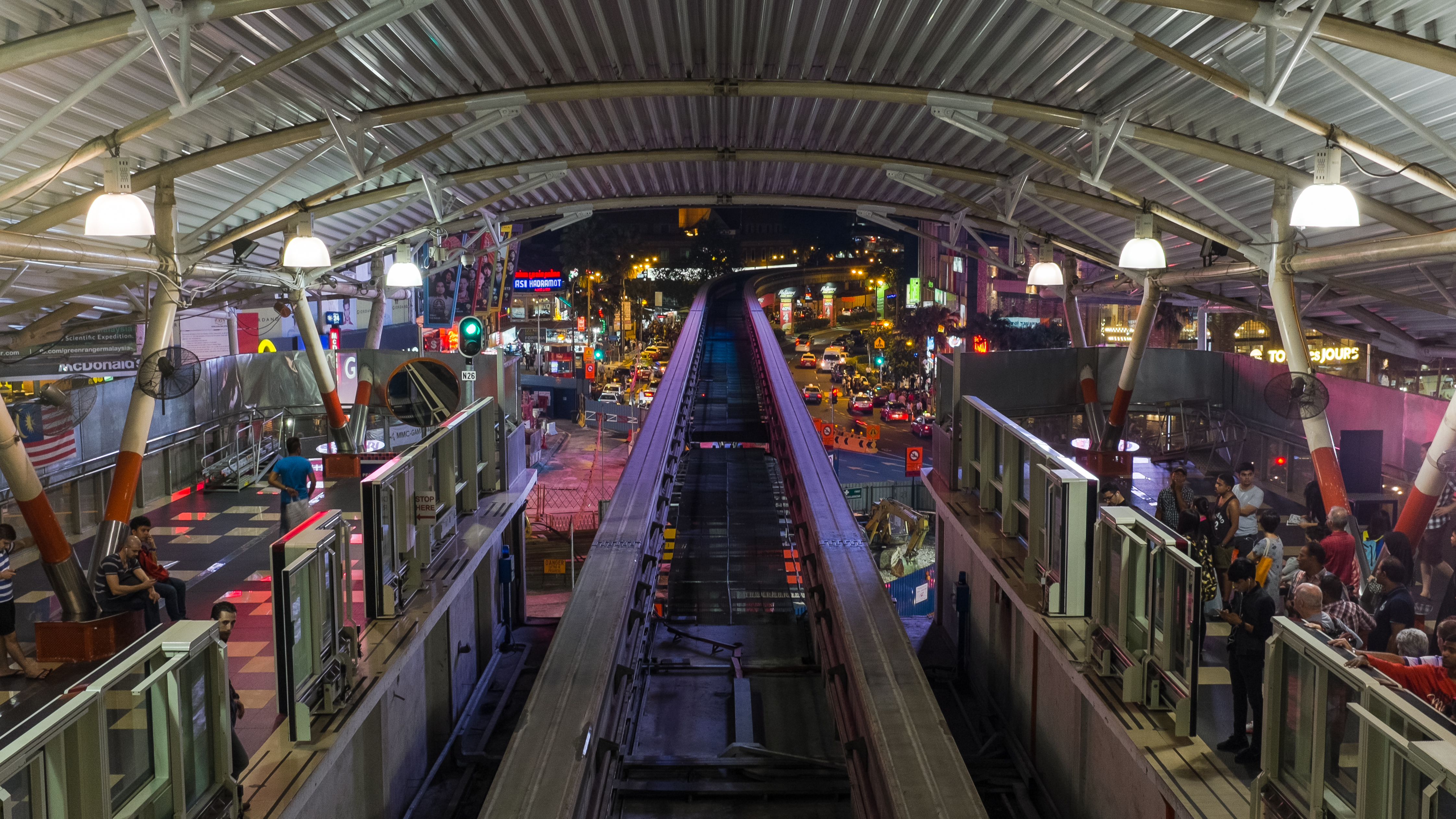 Train station Bukit Bintang in Kuala Lumpur, Malaysia, by night.